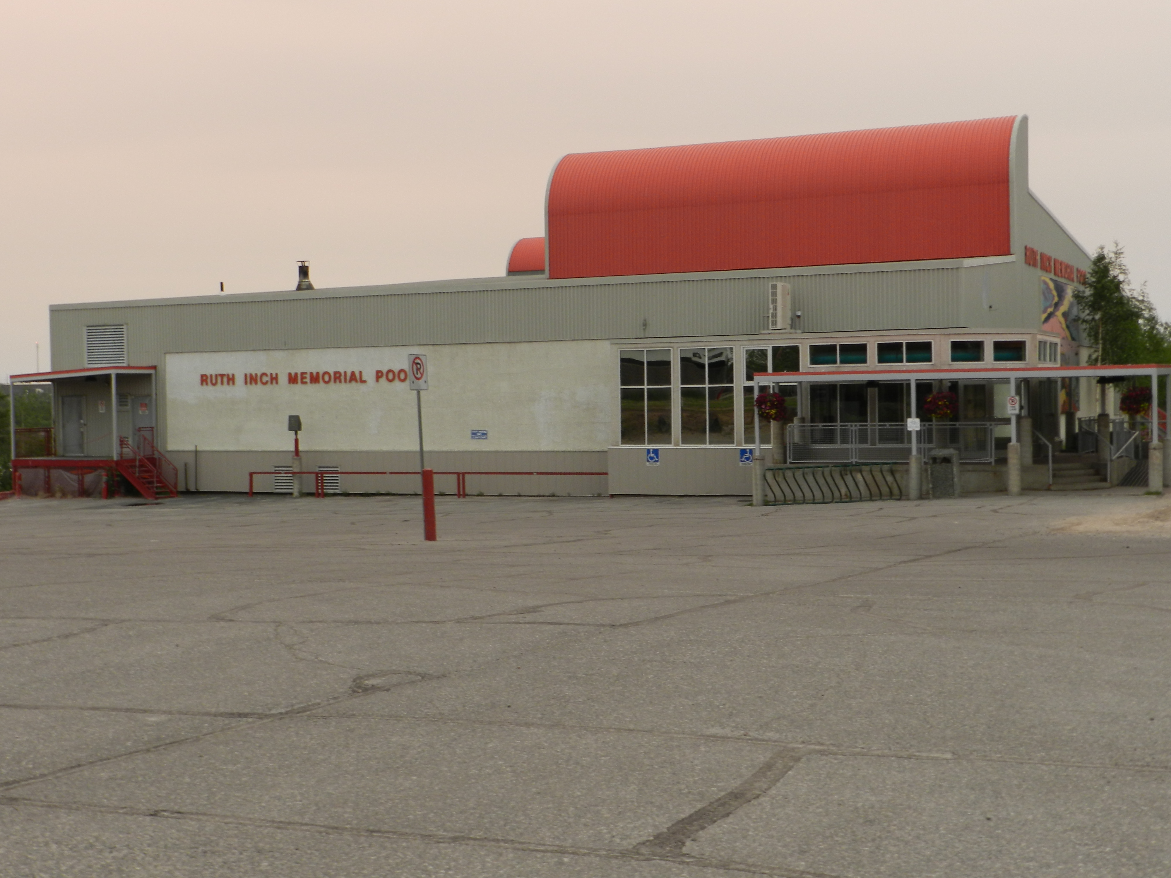 Ruth Inch Memorial Pool